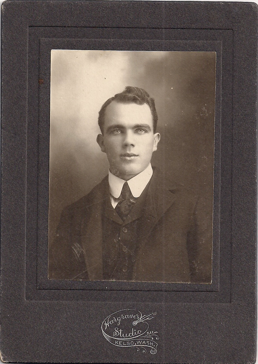 E R Moon, Congo missionary, photo from 1908